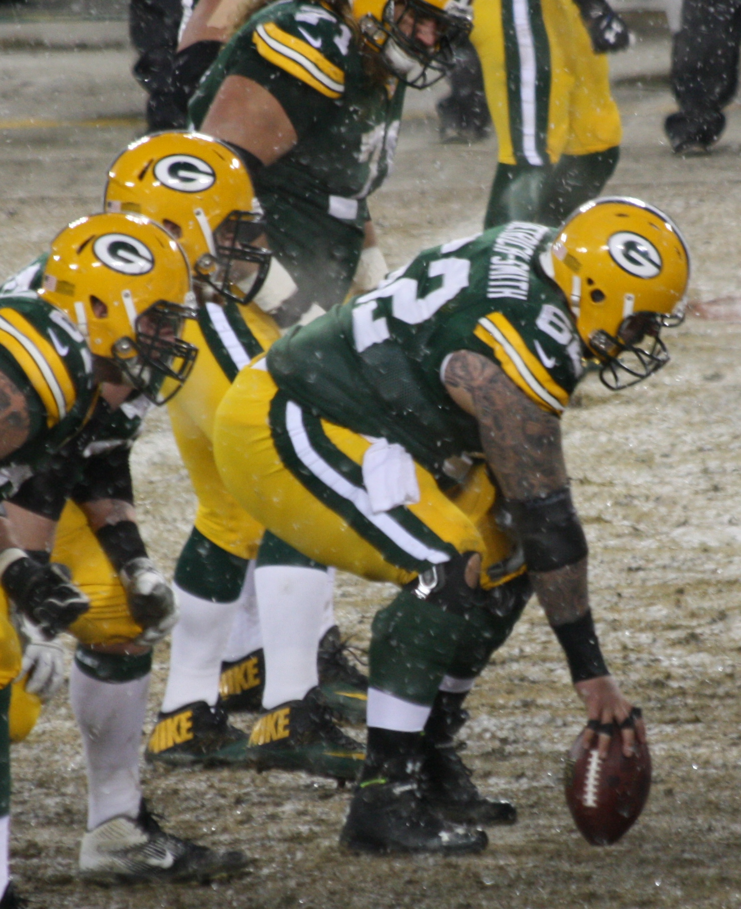 Green Bay Packers player Evan Dietrich-Smith lined up to snap for the offense against the Pittsburgh Steelers.